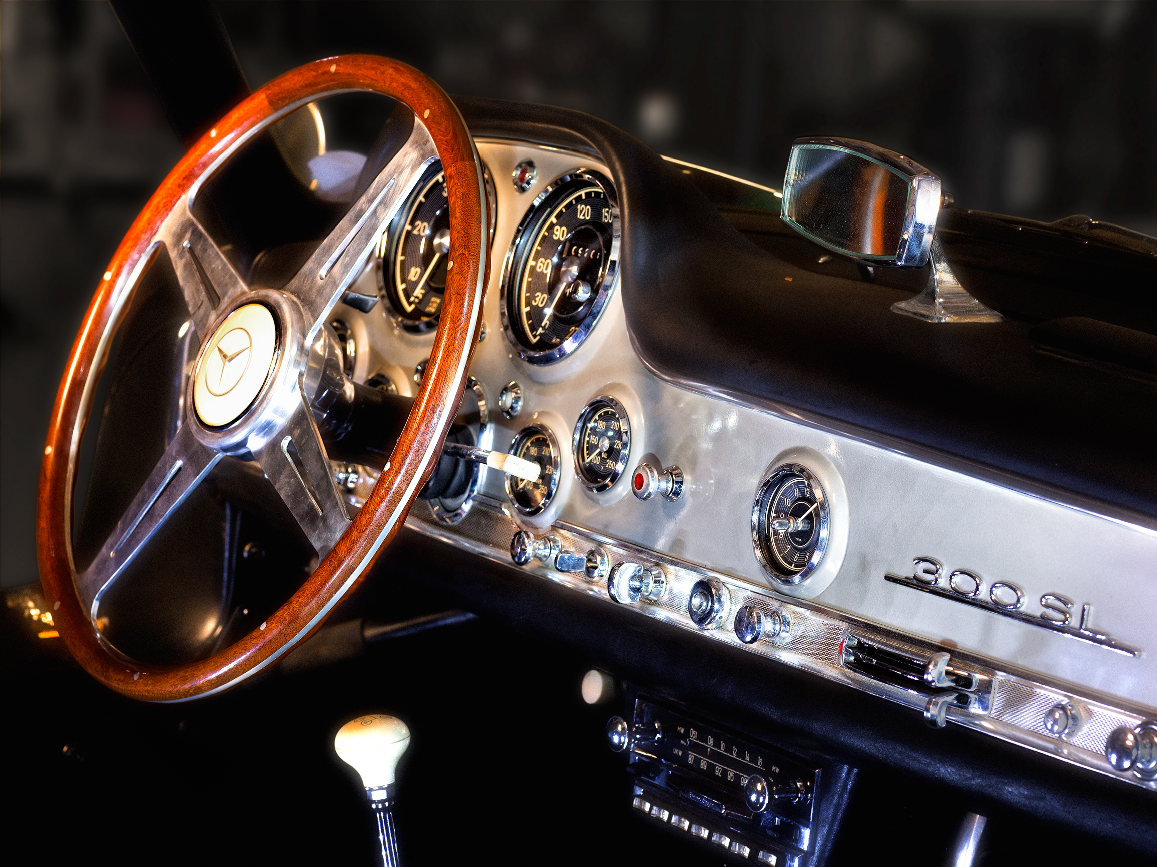 1956 300 SL Coupe. Photo taken with permission of the Mercedes-Benz Classic Center USA, Irvine, California. Usage with permission of Royce Rumsey.